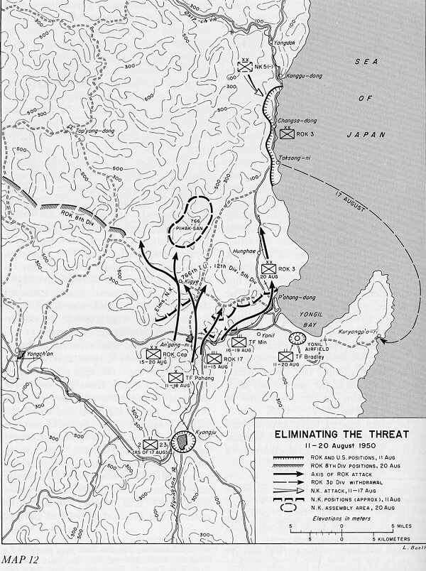 Map of the Battle of P'ohang-dong